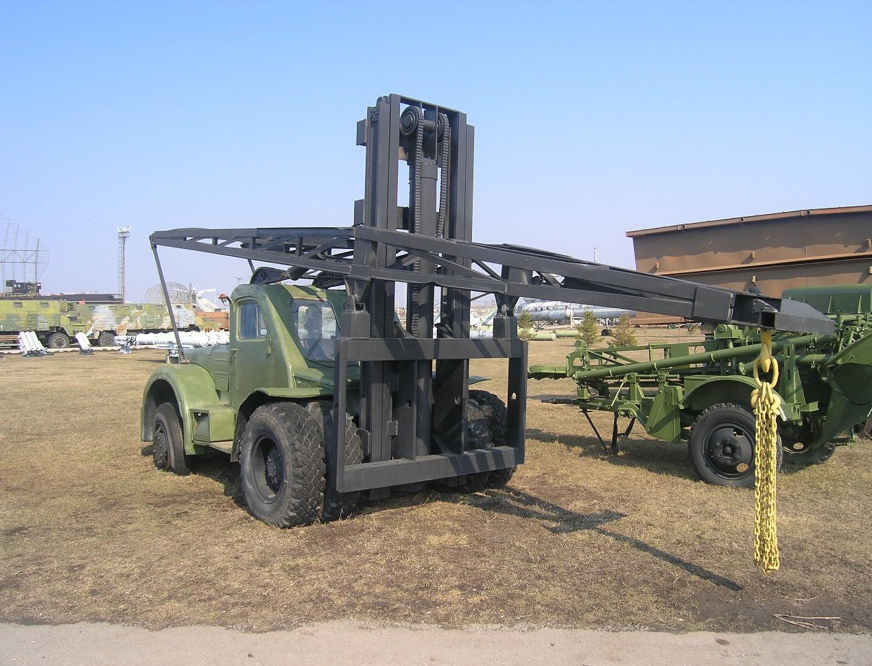 LZA 4008М in Technical museum Togliatti